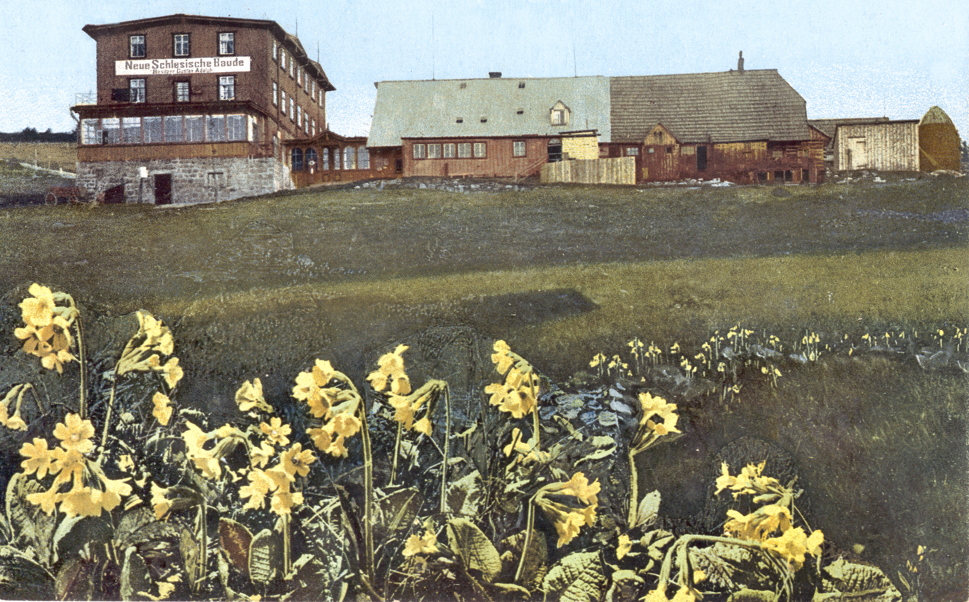 Hala Szrenicka Hut, Karkonosze, Germany now Poland.